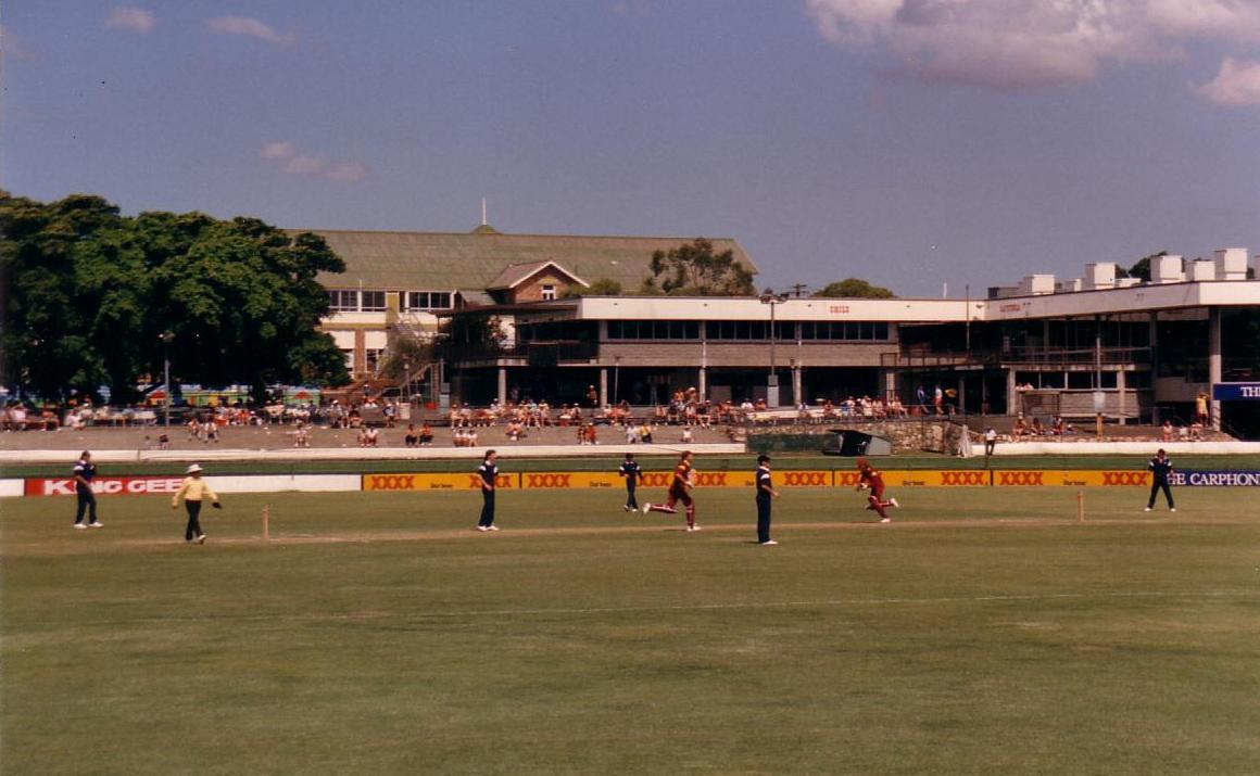 Queensland Bulls versus Victorian Bushrangers in a limited overs one-day cricket match at the 'Gabba during the mid-1980s. The Queensland Bulls, who are batting, are wearing maroon coloured uniforms, while the Victorian Bushrangers, who are fielding, are wearing dark-blue coloured uniforms. The umpire is wearing a yellow coloured shirt and black trousers. There are always two umpires.